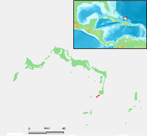 Locator map from the Turks- and Caicos Islands - Water Cay.PNG